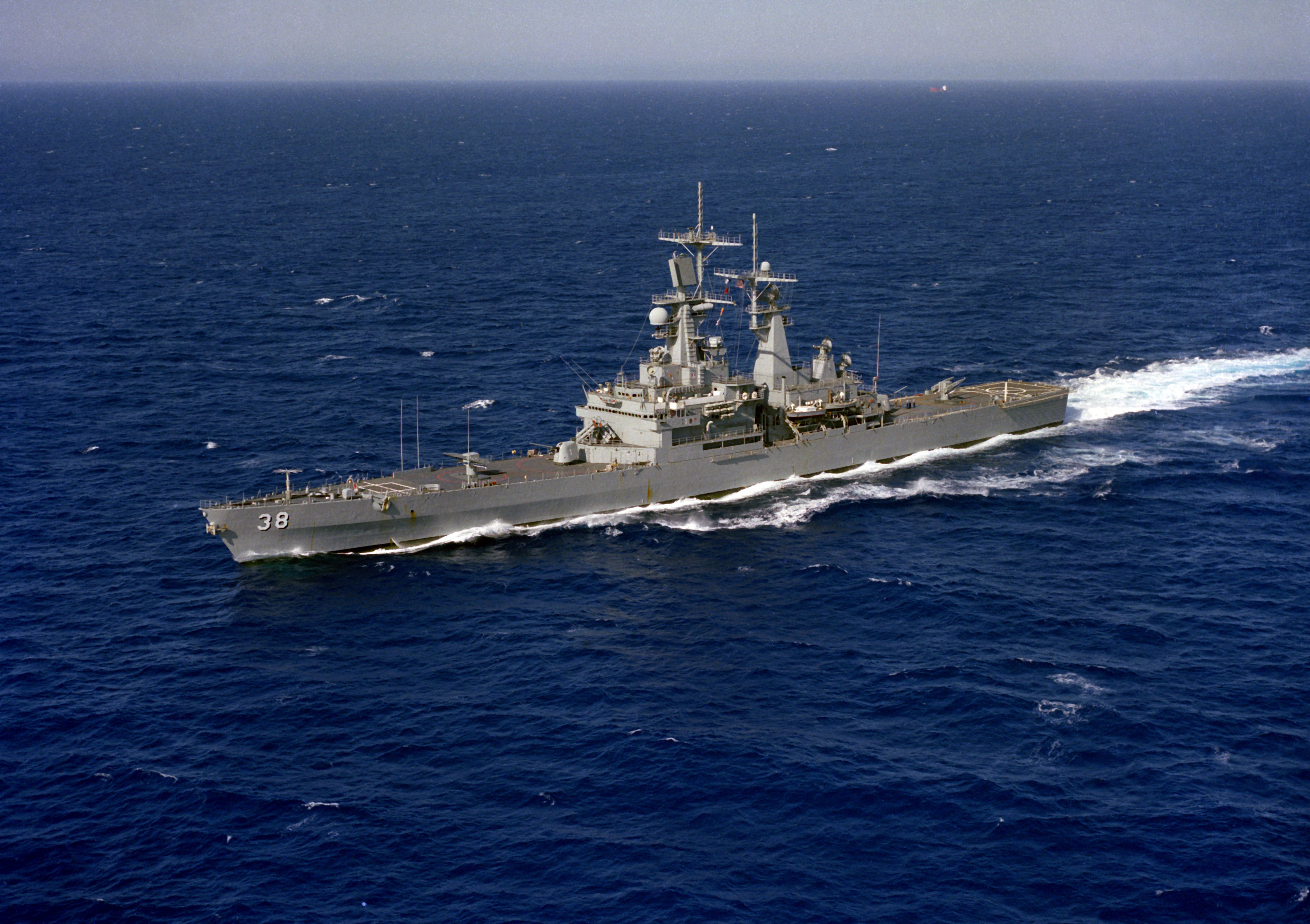 The U.S. Navy nuclear-powered guided missile cruiser USS Virginia (CGN-38) underway. The photo was taken between 1976 and 1984, before the addition of Phalanx CIWS and the Armoured Box Launchers for the Tomahawk cruise missiles.